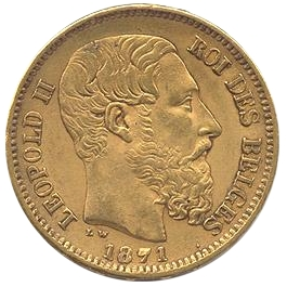 Obverse of the 20 Belgian francs coins in gold of 1871, with the portrait of King Leopold II